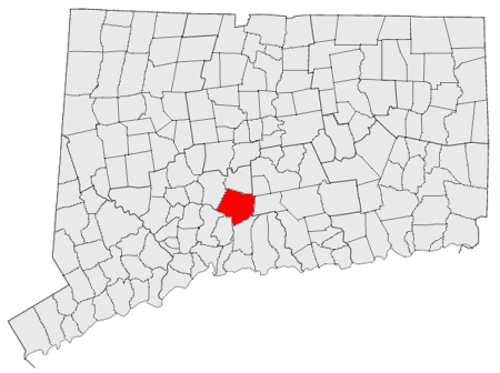 Location of Wallingford, Connecticut.